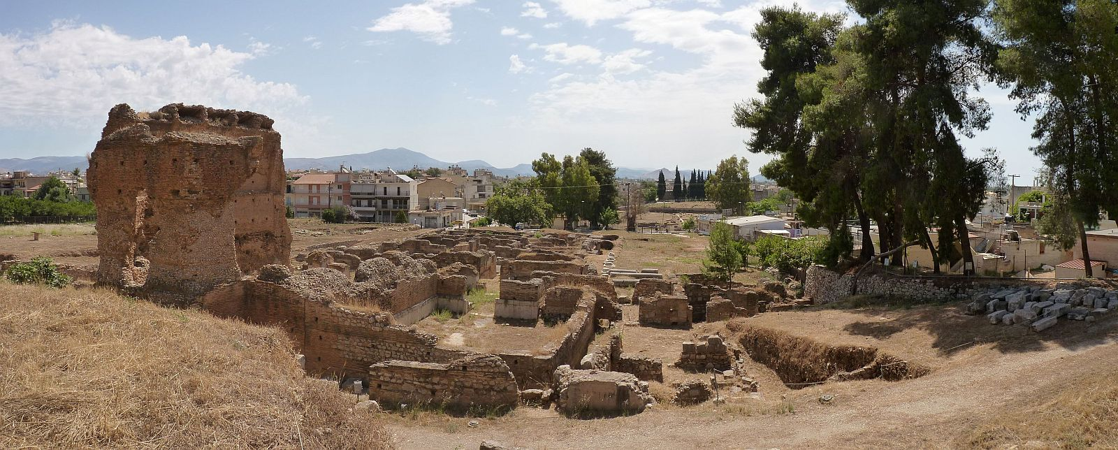 The Thermal Spring of Ancient Argos - more information visit Ploync